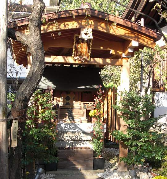 Ōta-Shrine (Kasuga, Bunkyō, Tokyo, Japan)